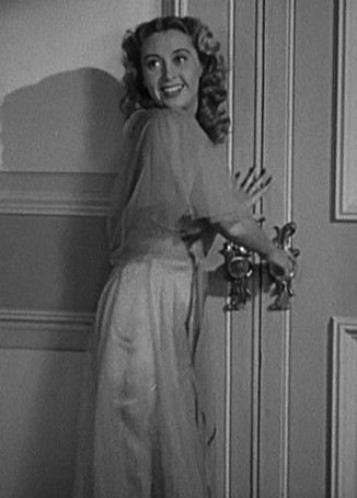 Cropped screenshot of Joan Blondell from the film Topper Returns.